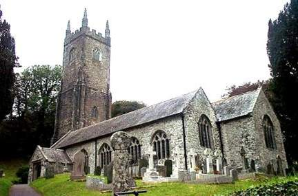 Altarnun, Cornwall, St Nonna's Church.